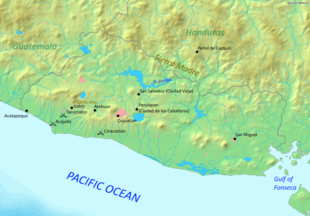 Principal settlements and battle sites of the Spanish conquest of El Salvador.